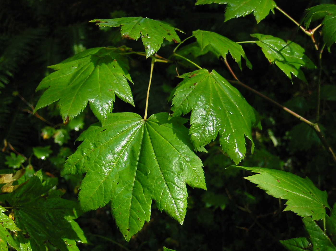 Vine Maple foliage. Leaves are damp from rain.